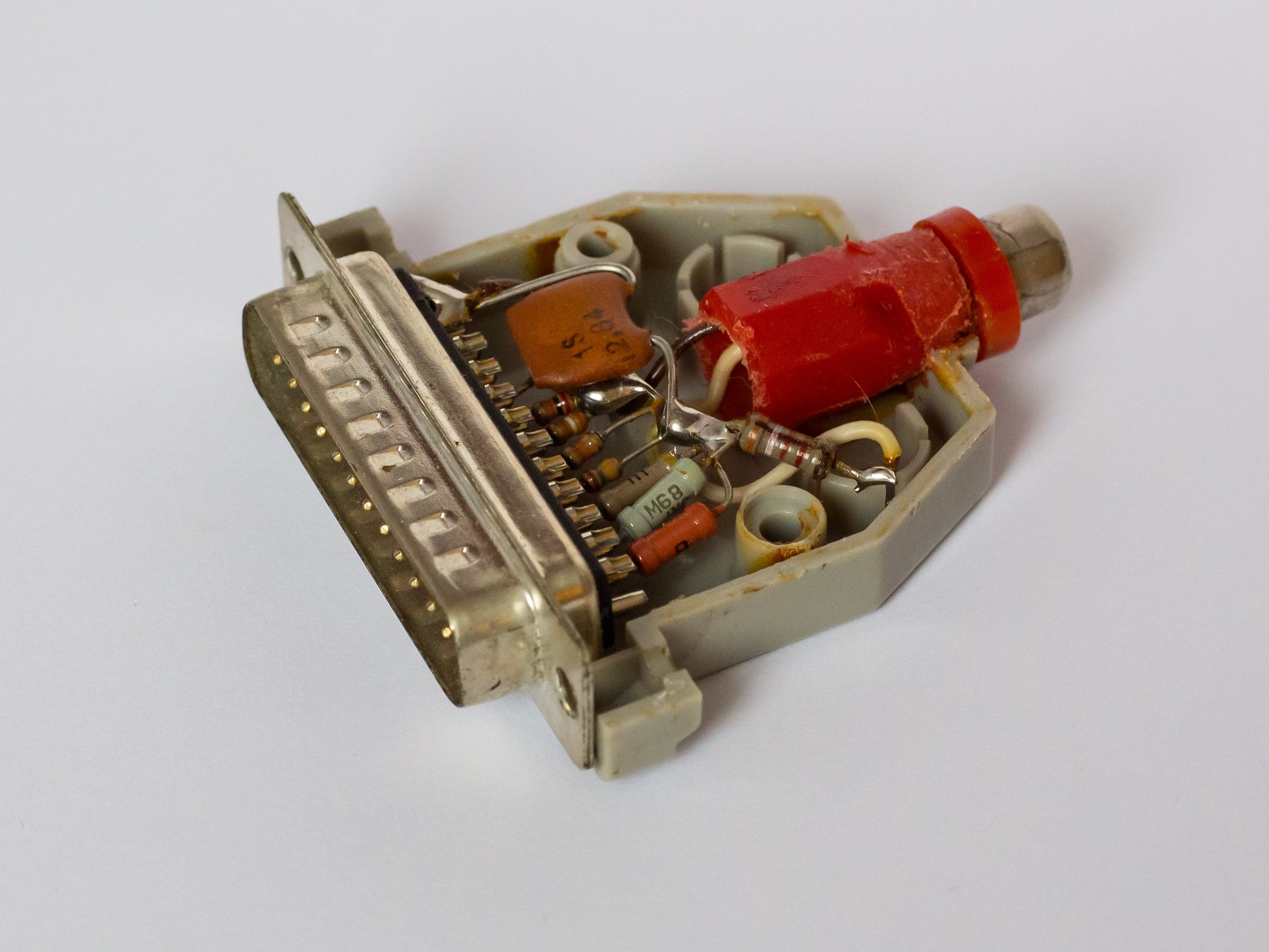 Amateur-built Covox fits in standard D-sub 25 plug